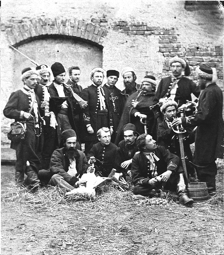 Zouaves of Death